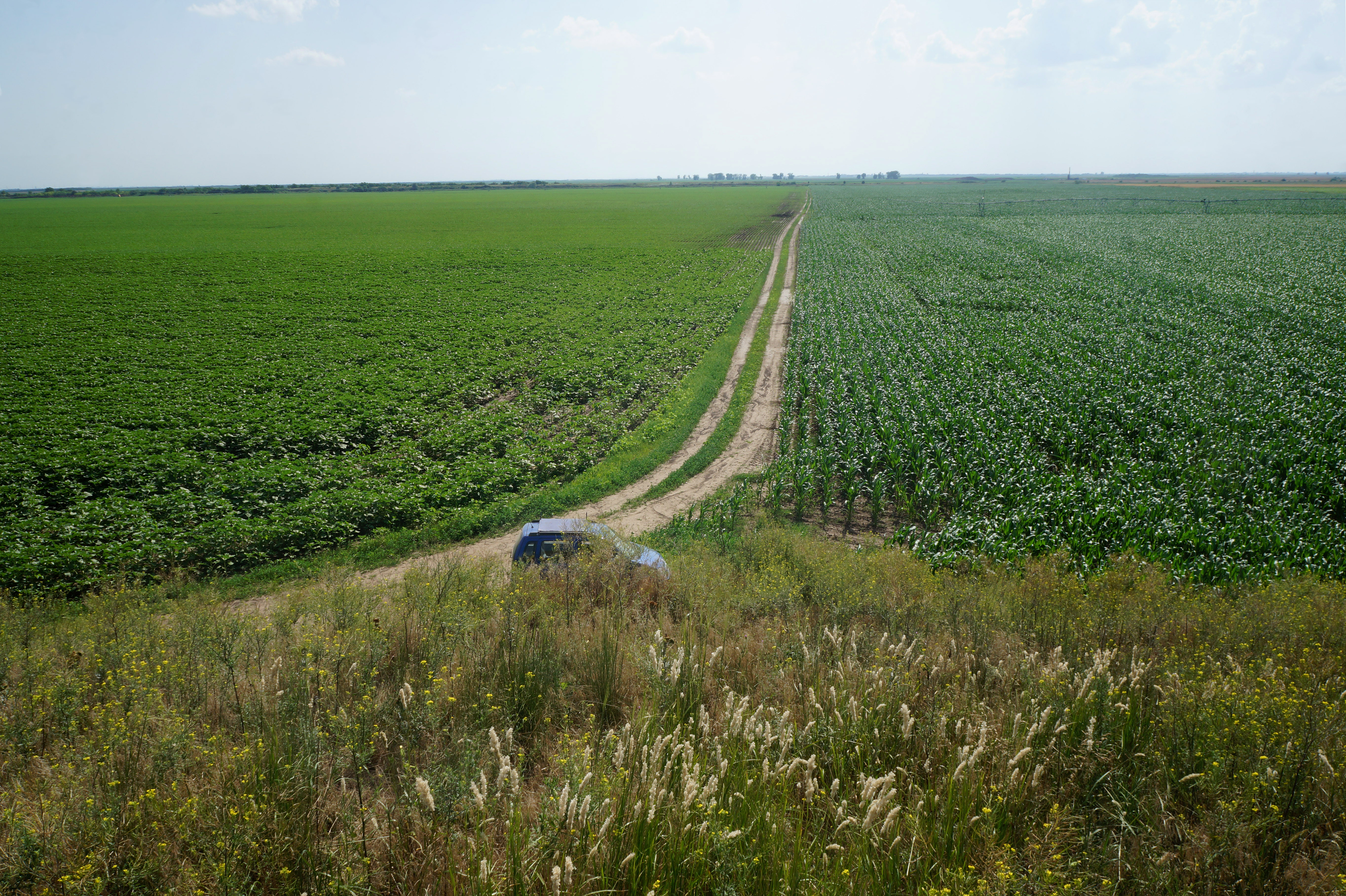 Kurgan Kinđa (Kikinda) panorama. With some Red Spire (Melica transsilvanica) in the front.